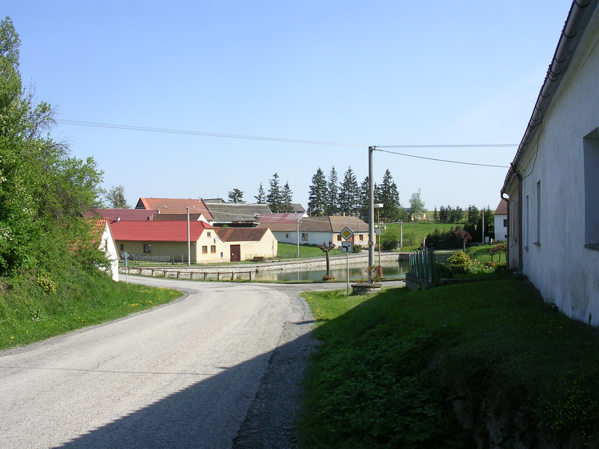 Dačice-Hradišťko, South Bohemian Region, the Czech Republic.